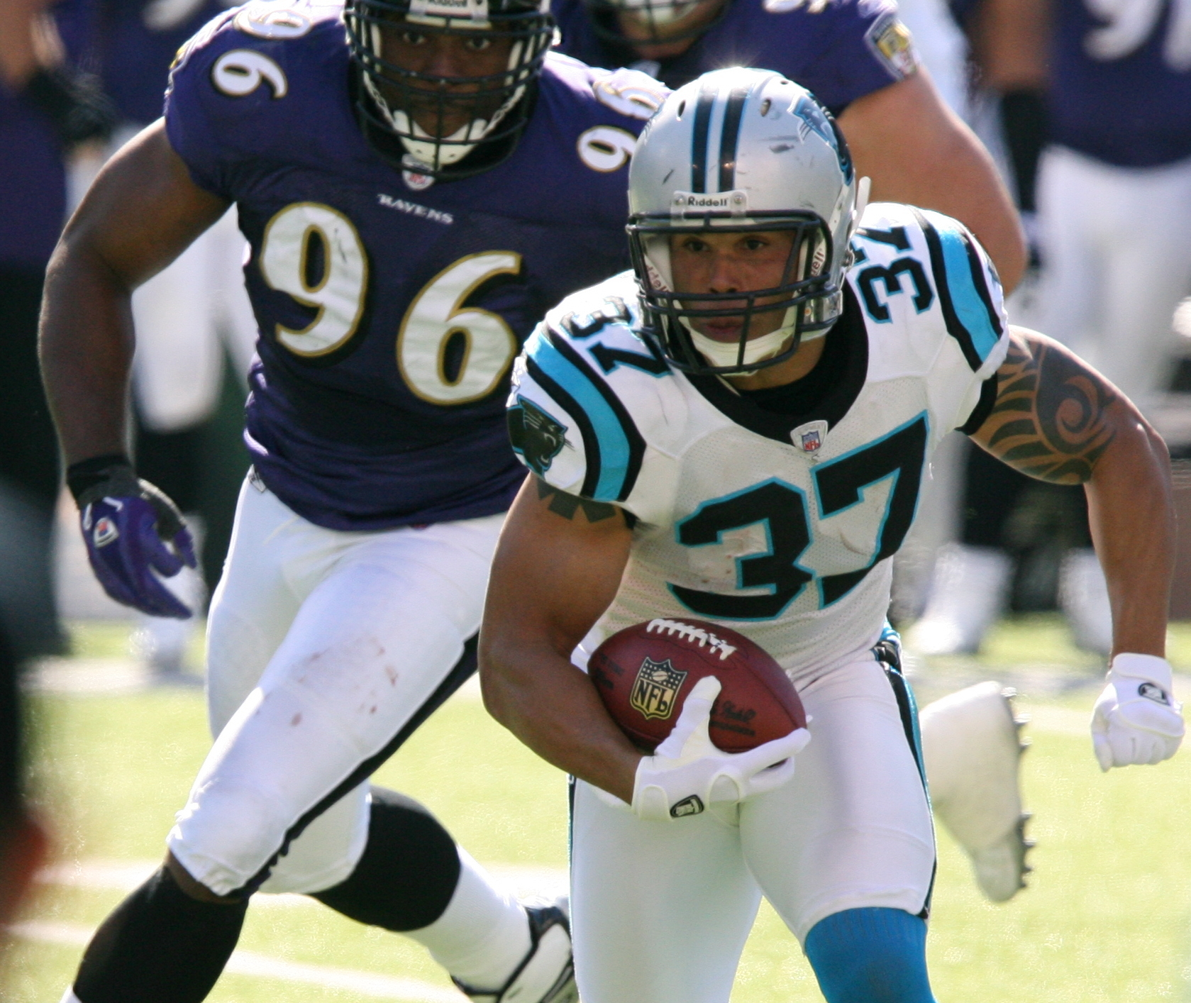 Carolina Panthers running back Nick Goings is chased by Baltimore Ravens linebacker Adalius Thomas.